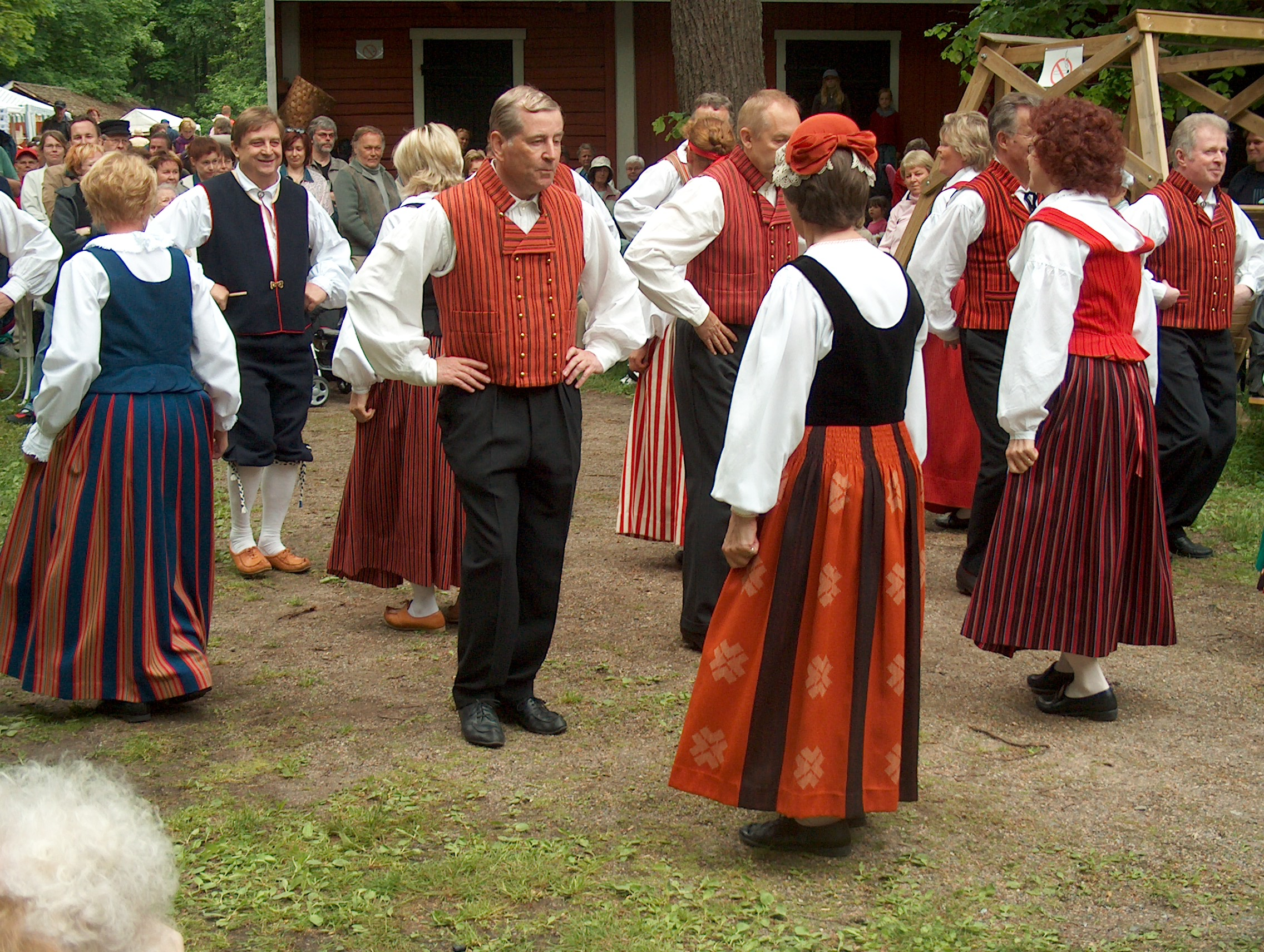 Folk dancing on Kerava Day 2005